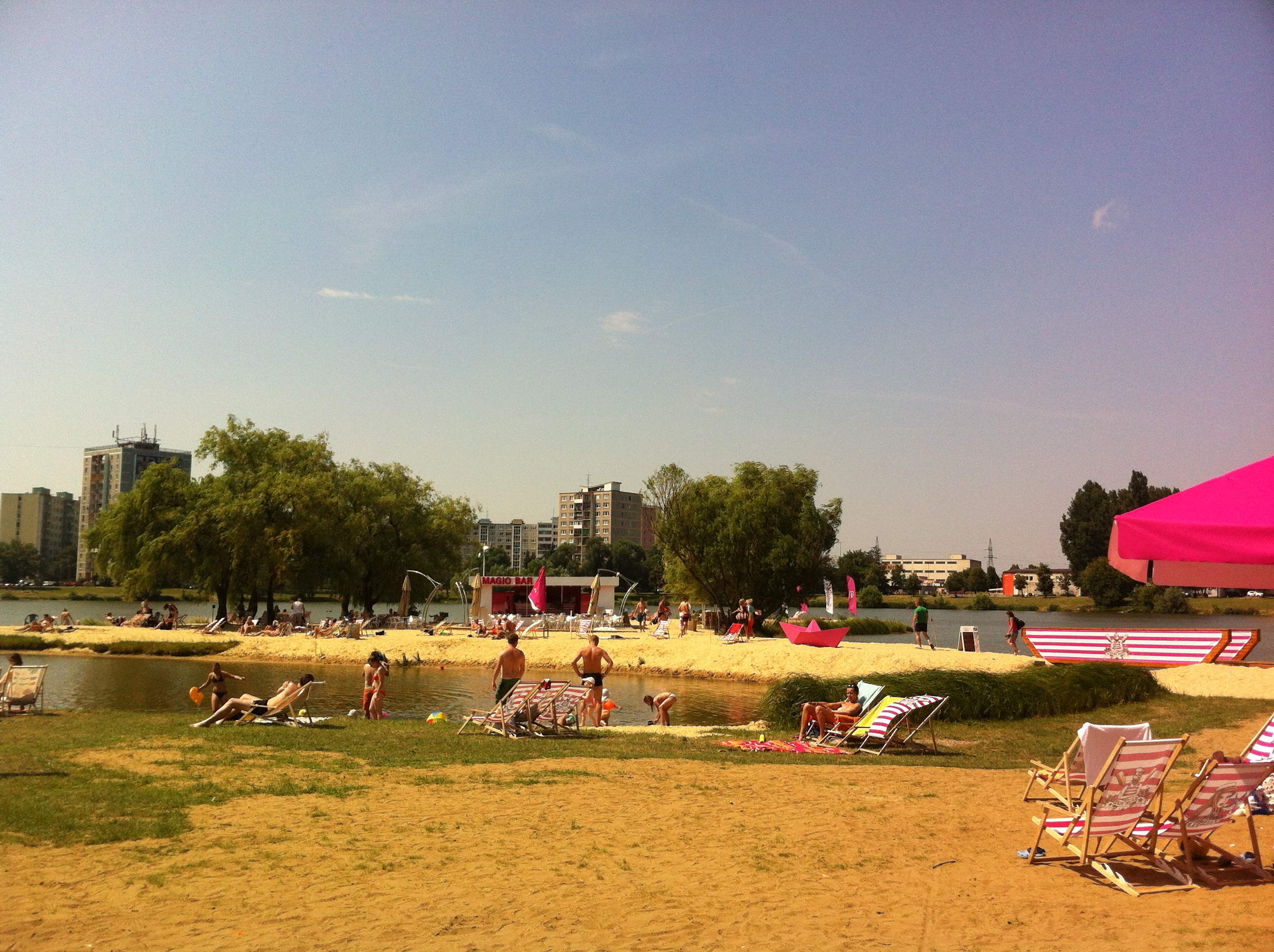 Sand Beach Jazero in Košice, Slovakia